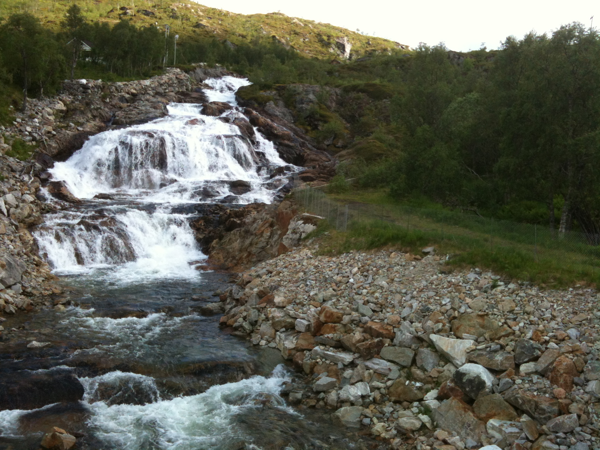 Ersfjordelva in Tromsø, Norway, just before it flows into Ersfjorden